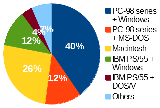 Published in the Nikkei Personal Computer 1993-06-21 issue; The result of questionnaire for 1021 of 2000 random selected readers "What is the next PC you want to buy?" In this chart, IBM PS/55 includes IBM PC clones.